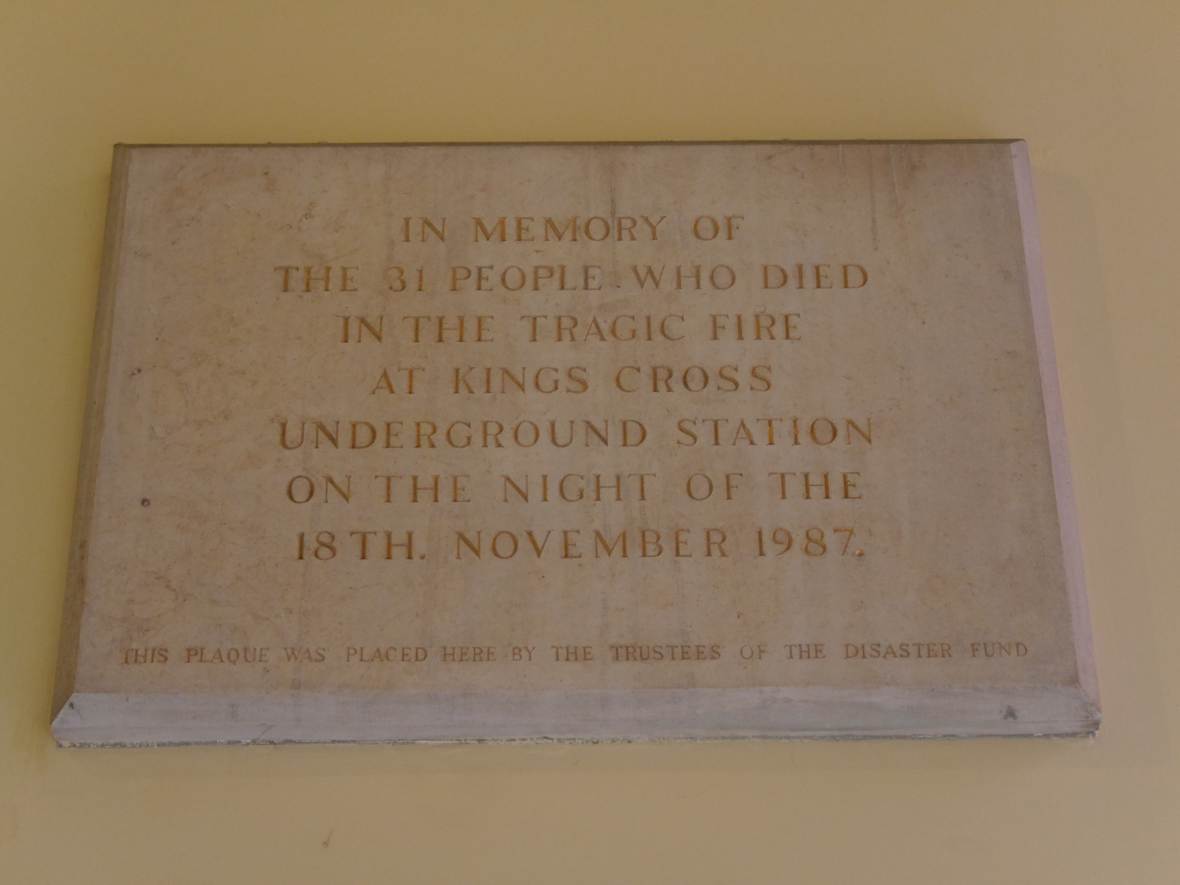 St Pancras New Church, February 2015